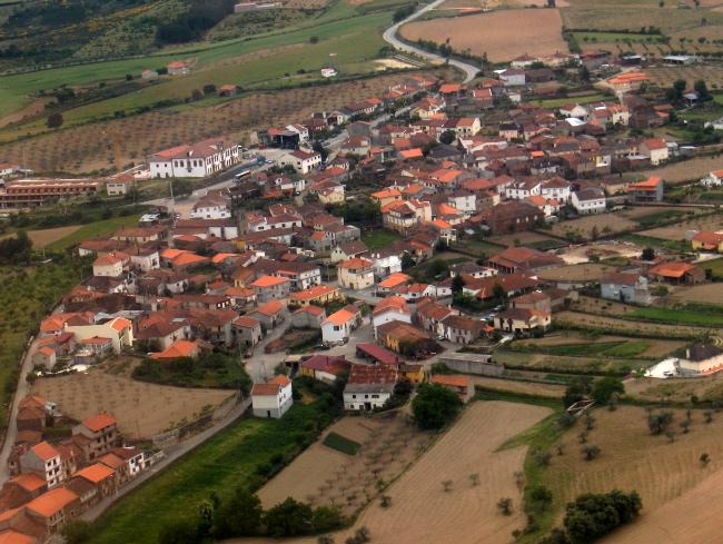 vista aéra da aldeia